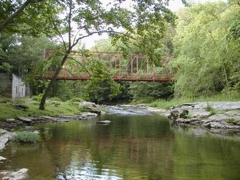 Scene along the Little Beaver Creek in Columbiana County, Ohio, of the red iron bridge crossing the north fork of the creek, on Fredericktown-Midland Road near the border between Ohio and Pennsylvania, taken by me, Jeff Hendrickson.